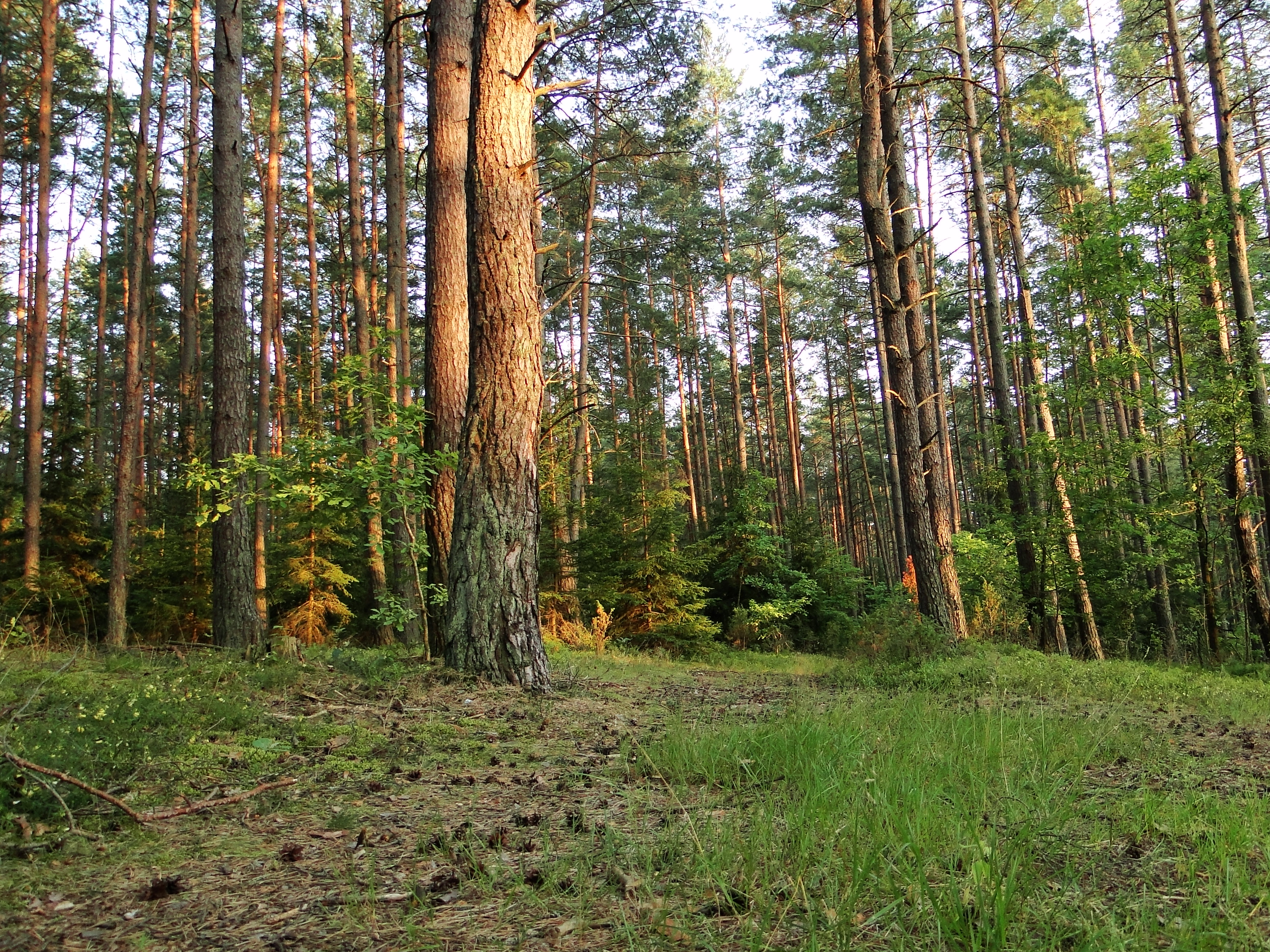 Scots Pine Pinus sylvestris forest of Puszcza Piska in village Stare Kiełbonki, Poland